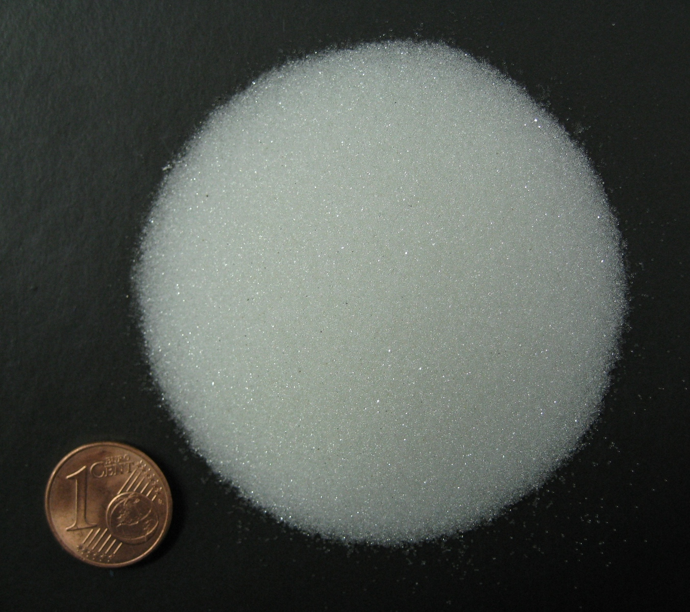 Glass microspheres (or glass beads); diameter: ≈300 µm, specific gravity: 2.5. Mineral filler mainly used to increase the stiffness on thermoplastic or thermoset resins and for road safety markings.